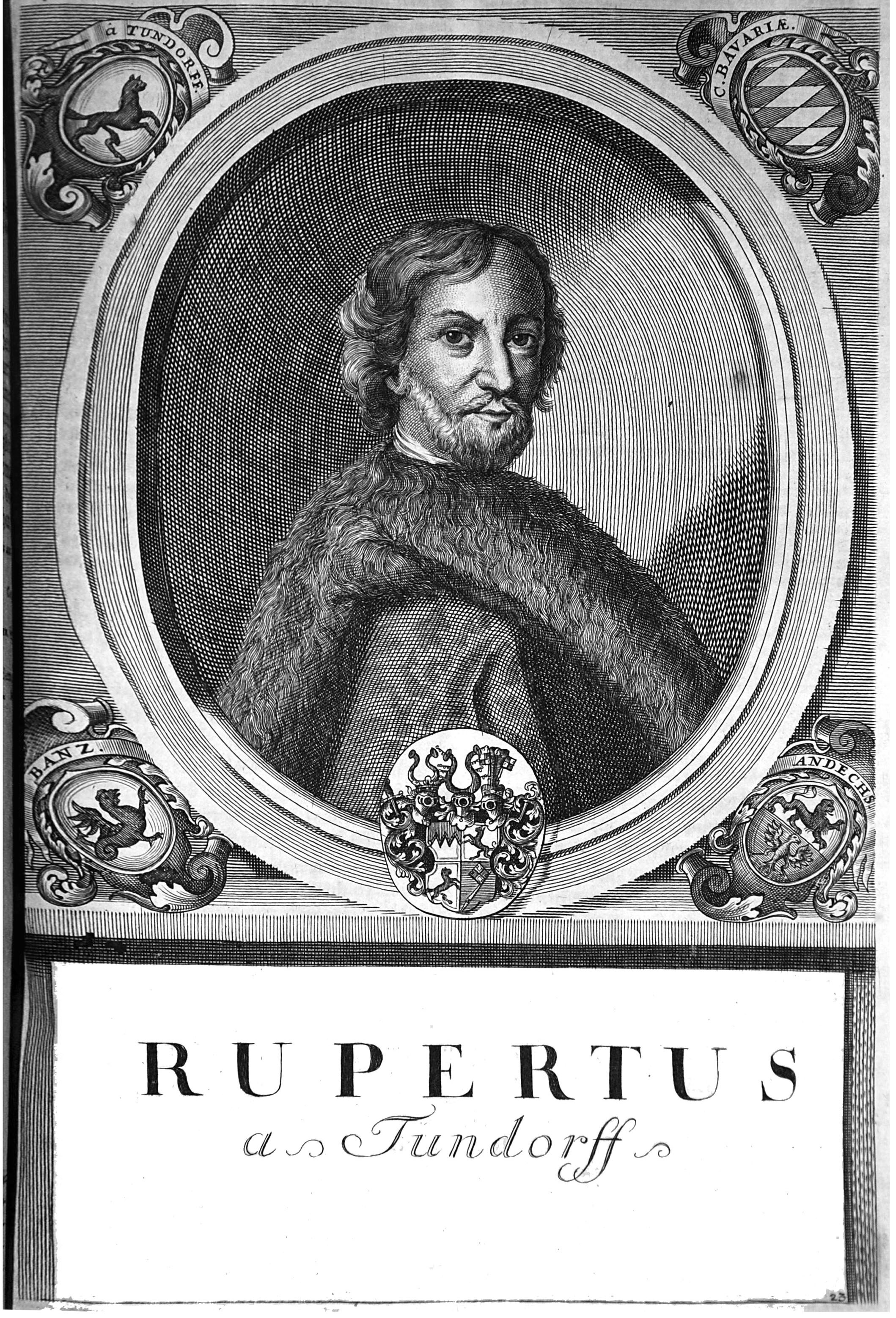 Rupert († 11. Oktober 1106 auf dem Weg nach Guastalla) 1105 to 1106 (Gegenbischof) Bishop of Würzburg